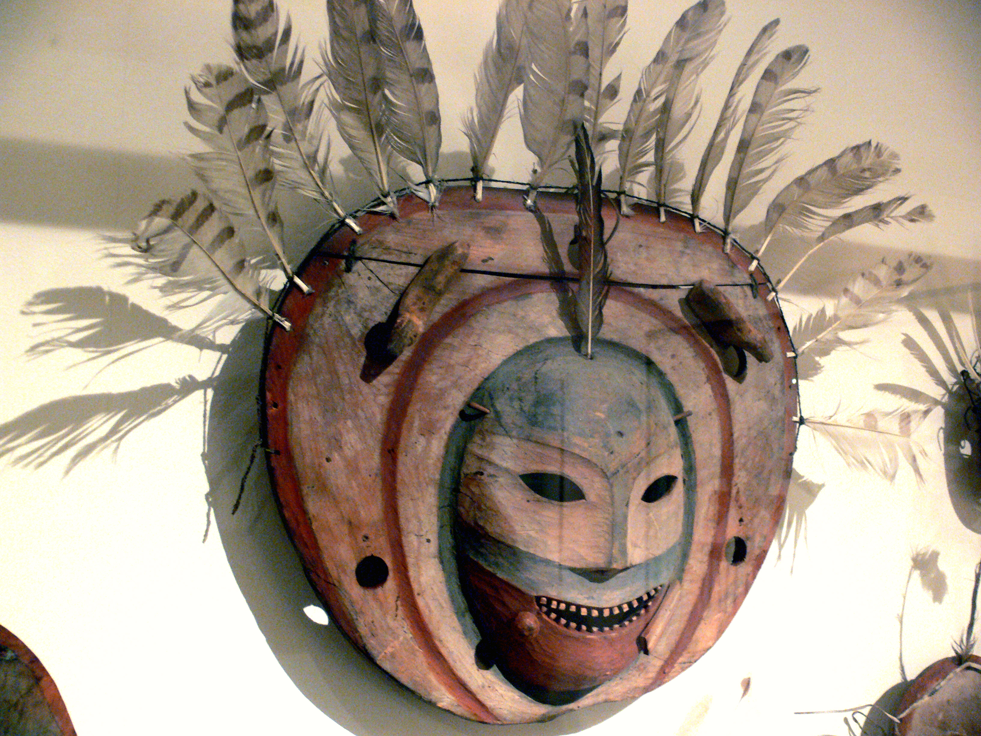 Shaman's mask, Yupik people; North America department, Ethnological Museum, Berlin, Germany